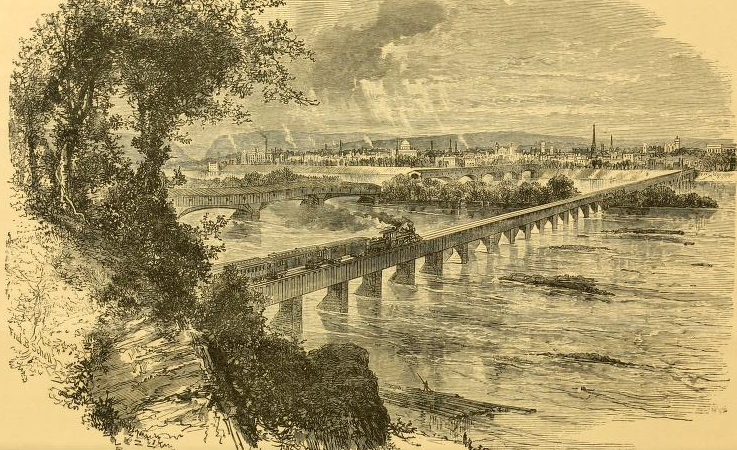 The Cumberland Valley Railroad (CVRR) bridge crossing the Susquehanna River at City Island with Harrisburg, Pennsylvania on the other side of the river. Taken from a publicity booklet/schedule "Rural Resorts and Summer Retreats along the line of the Cumberland Valley Railroad, 1881"